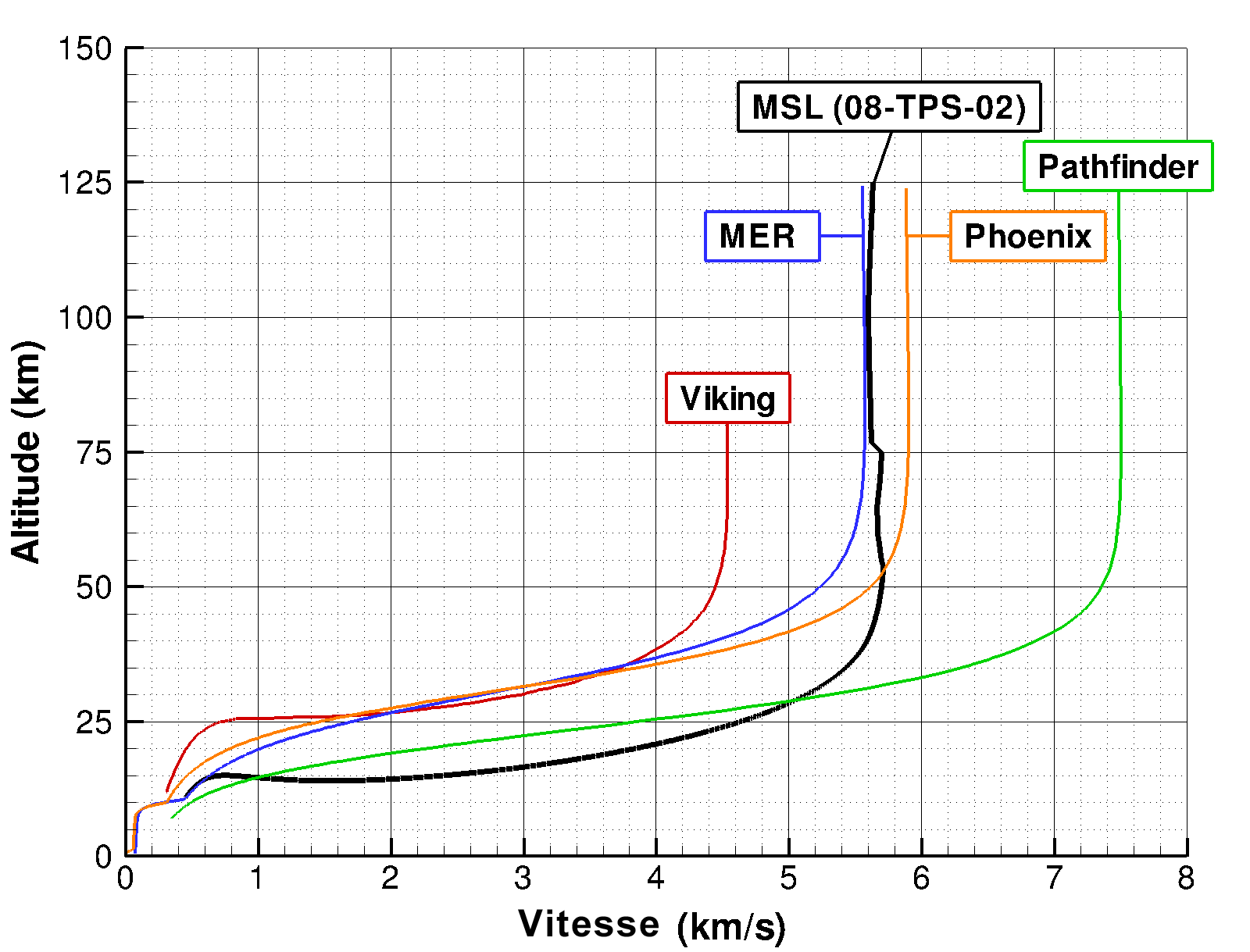 Trajectoire de descente sur Mars de la sonde Mars Science Laboratory